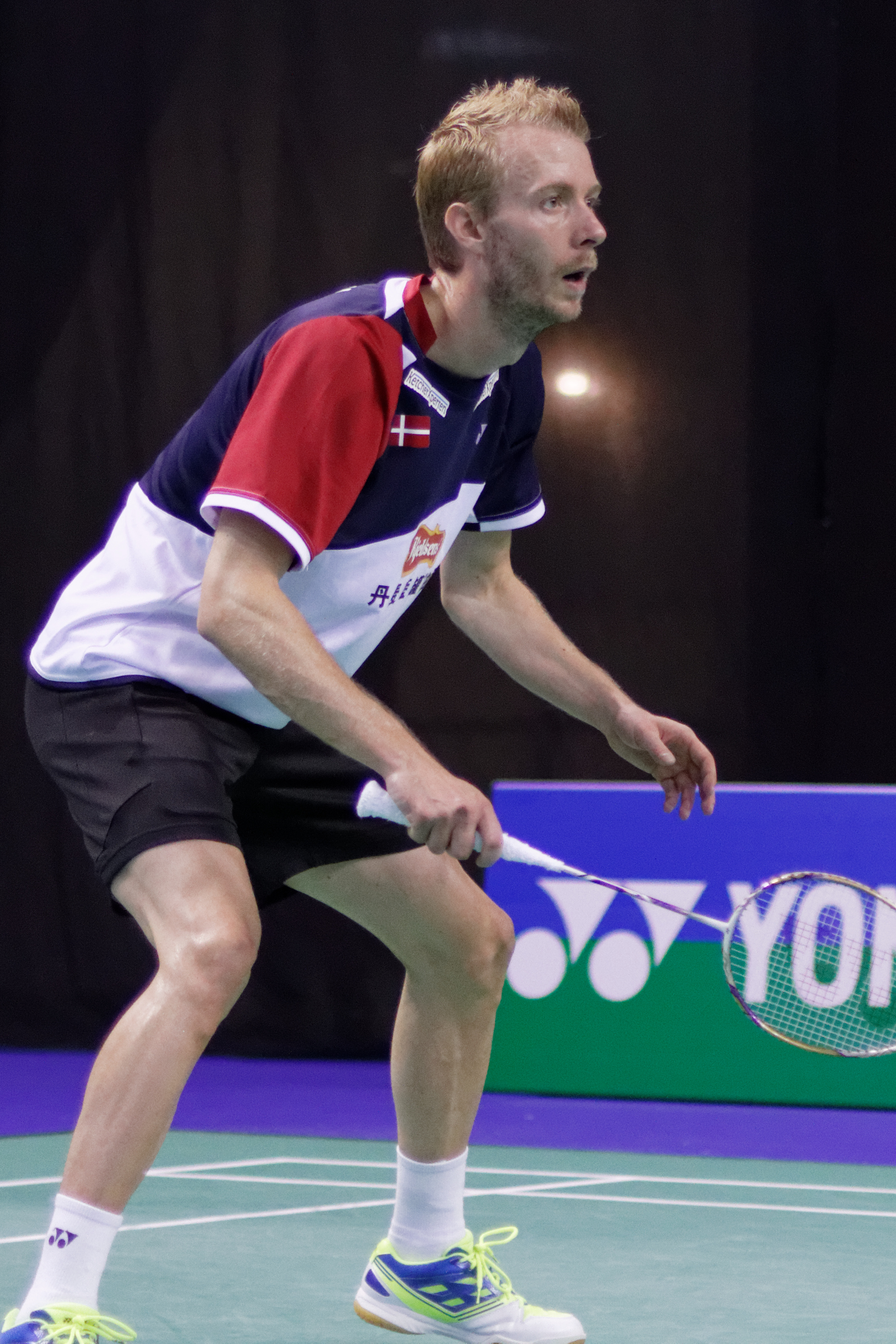 2013 French open. Men's doubles eightfinal. Łukasz Moreń and Wojciech Szkudlarczyk vs Mathias Boe and Carsten Mogensen.